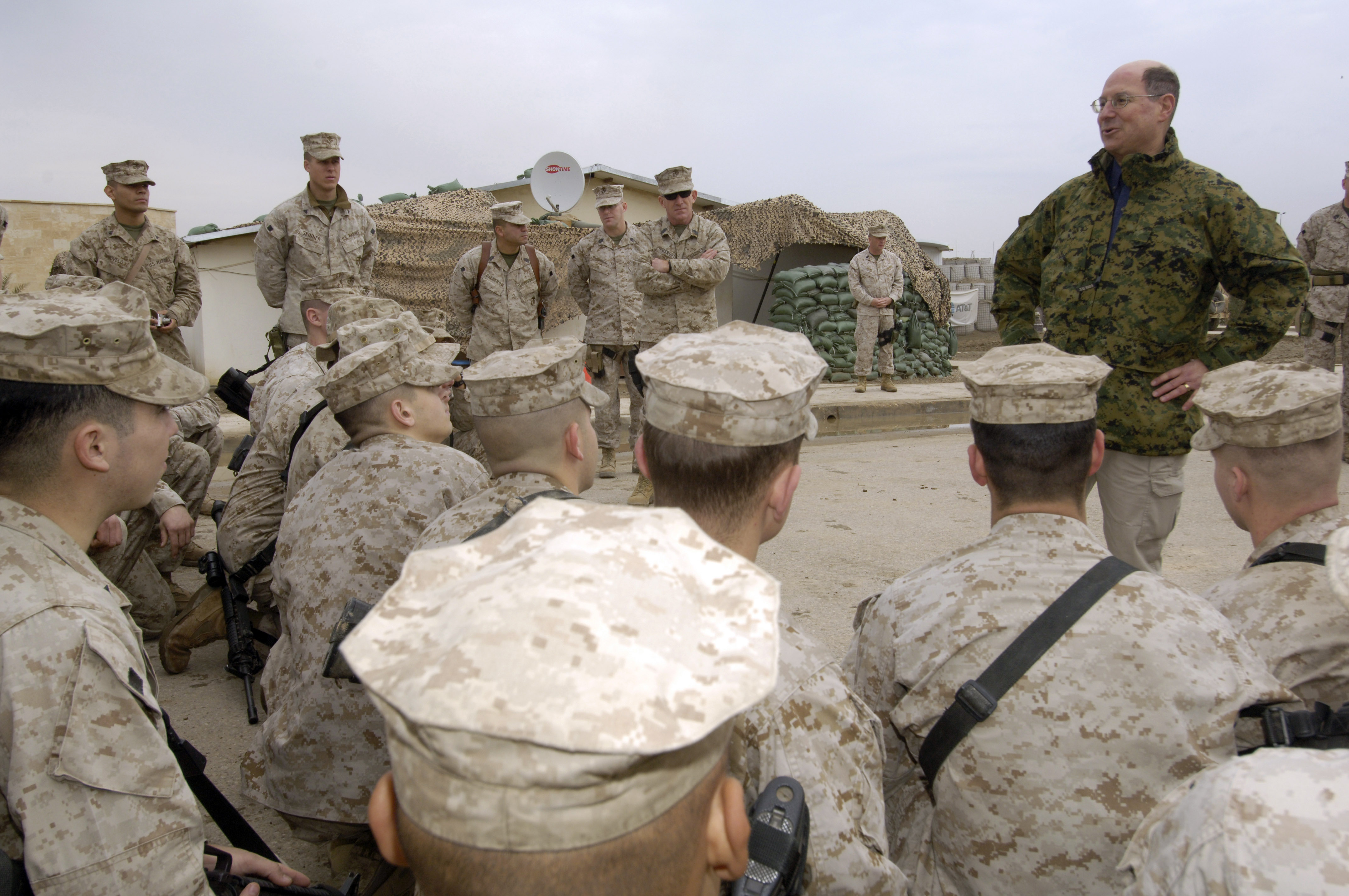 Ramadi, Iraq (Jan. 28, 2006) - Secretary of the Navy (SECNAV) Dr. Donald C. Winter addresses Marines assigned to the 3rd Battalion, 7th Marines about their missions and to find out how things are going. SECNAV is in the Middle East to see first-hand the conditions, morale, and equipment in use by Navy and Marine Corps personnel deployed to the region. U.S. Navy photo by Chief Journalist Craig P. Strawser (RELEASED)